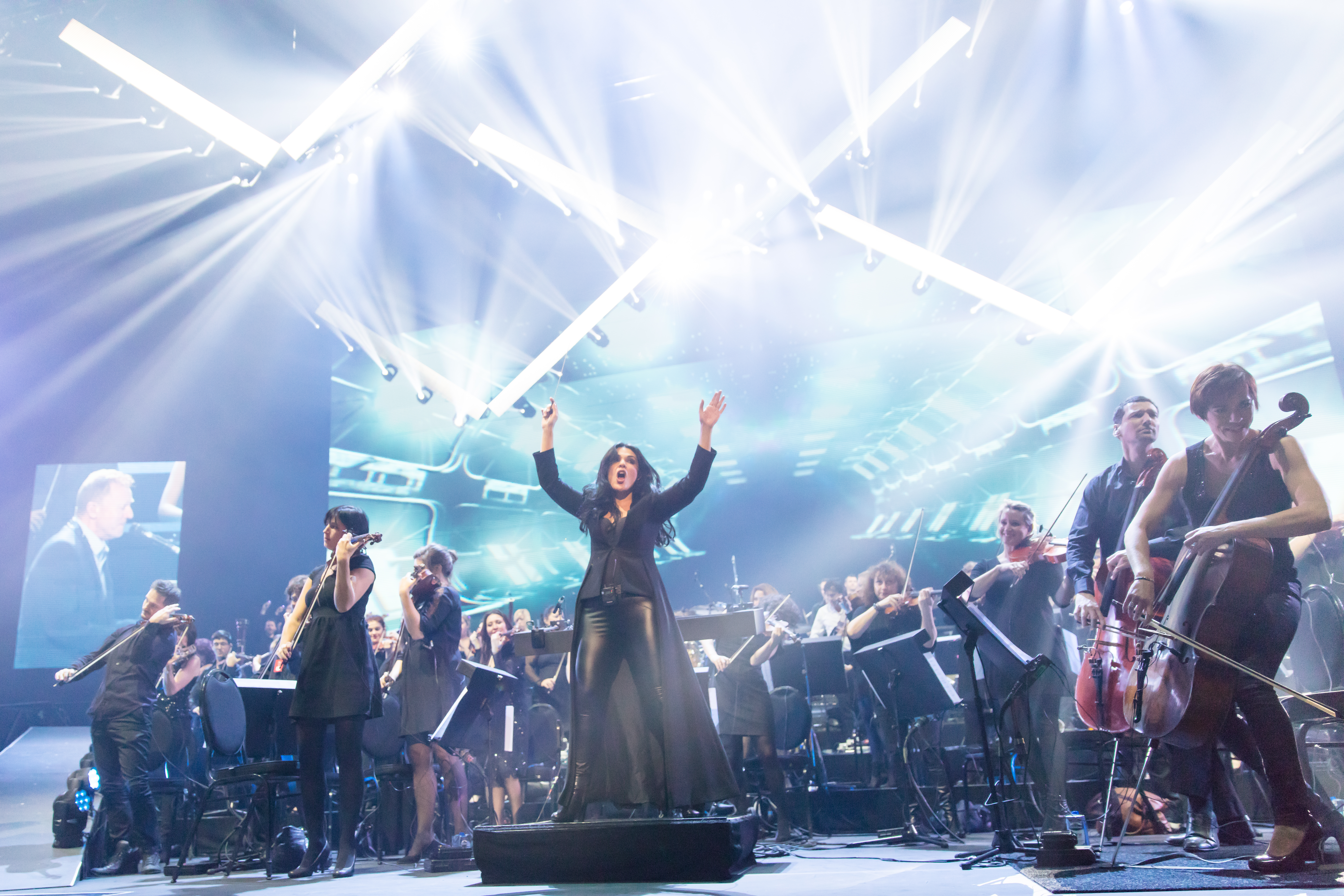 during Night of the Proms at SAP Arena, Mannheim, Baden Württemberg, Germany on 2016-11-25, Photo: Sven Mandel Simple Minds, Natasha Bedingfield, Stefanie Heinzmann, John Miles, Ronan Keating, Time For Three